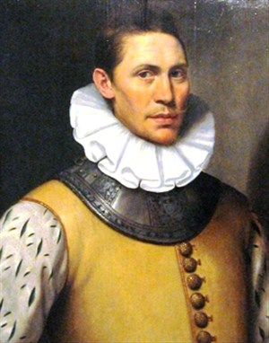 Portrait of Dirck van Os which currently hangs in Stedelijk Museum Alkmaar. I cannot currently find the author of this work, however as a 17th Century production it is most certainly in the public domain.